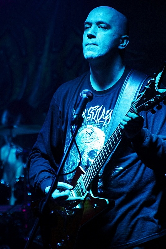 Katowice, Mega Club, 20.01.2011